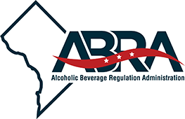 Logo of Alcoholic Beverage Regulation Administration, Washington, D.C.